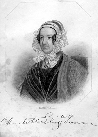 Charlotte Elizabeth Tonna (1790-1847)